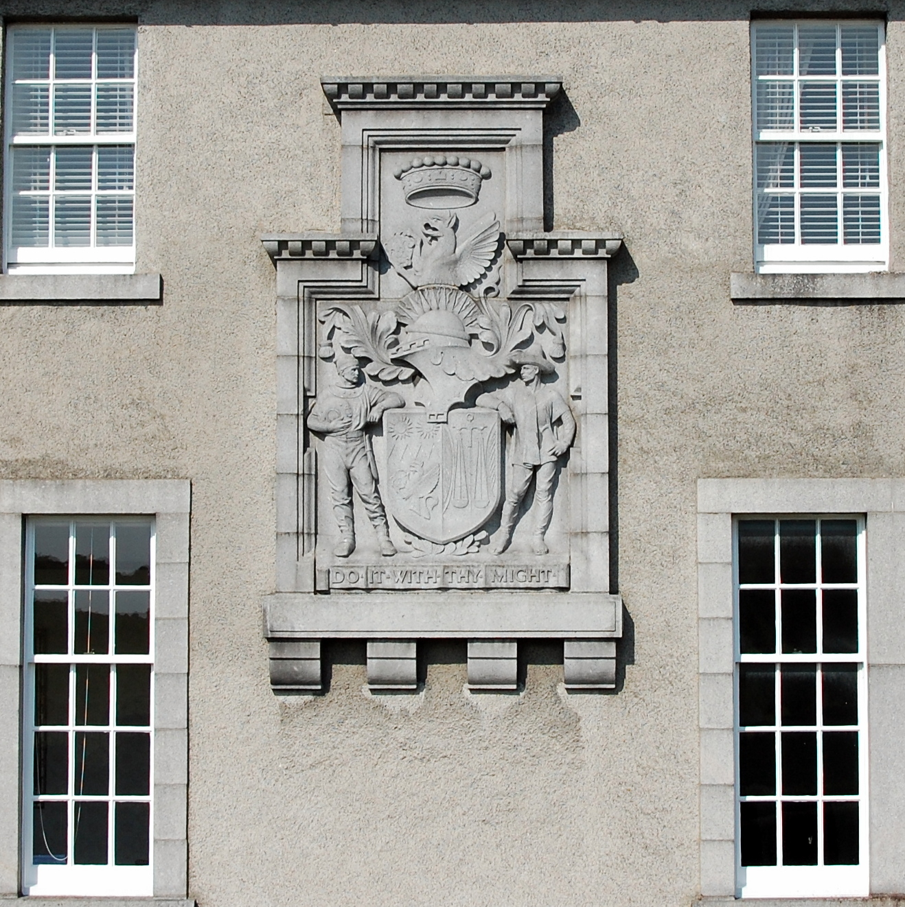 Arms of Pearson (Viscount Cowdray) on the wall of Estate Offices, Dunecht House, Aberdeenshire, Scotland. Dexter: Per fesse indented gules and or, two suns in splendour in chief and a demi-gryphon couped, wings elevated and addorsed, in base all counterchanged (Pearson) impaling Per pale argent and azure, a balance suspended between two flaunches, each charged with a branch of palm slipped, all counterchanged (Cass). These are the arms of Weetman Dickinson Pearson, 1st Viscount Cowdray (1856-1927), who married Annie Cass, a daughter of Sir John Cass. The supporters are: Dexter, a diver holding in his exterior hand his helmet; sinister, a Mexican peon (sic), both proper. The crest: On a wreath of the colours, in front of a demi-gryphon as in the arms, holding between the paws a millstone proper, thereon a millrind sable, a sun in splendour. Blazons from Armorial Families by Fox-Davies.